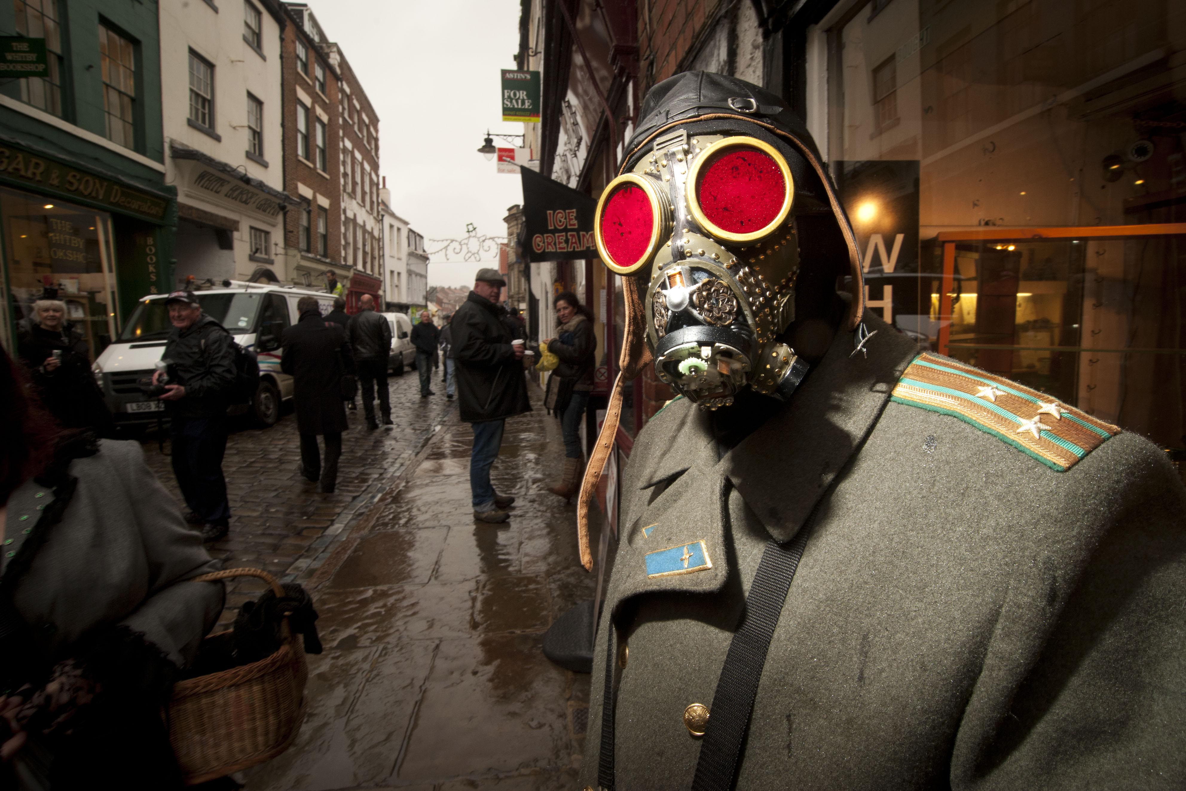 Goth weekends